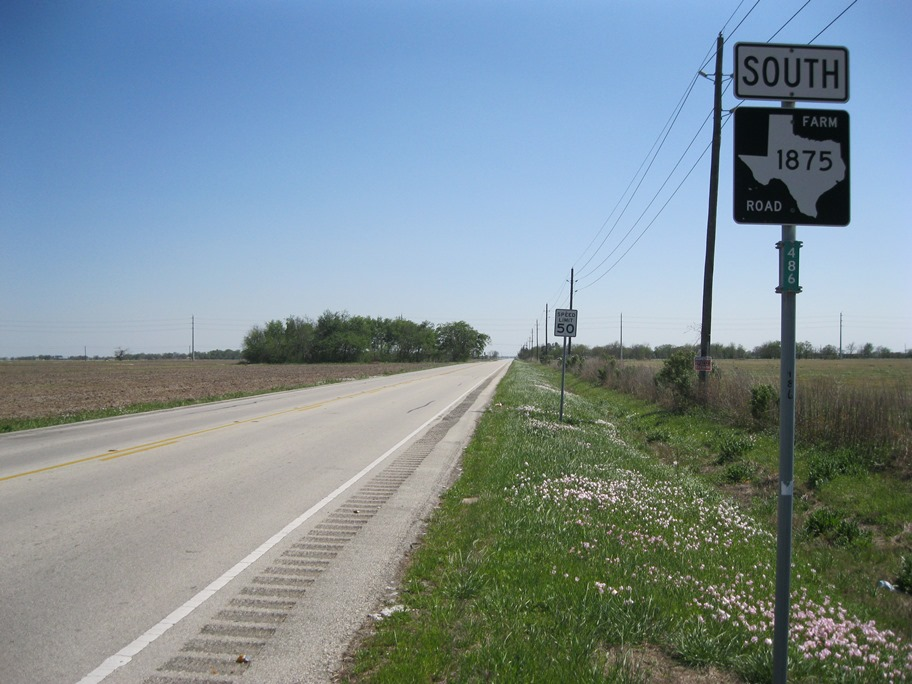 Photo shows FM 1875 near US 90A east of Tavener, Texas. View is generally south toward Beasley.